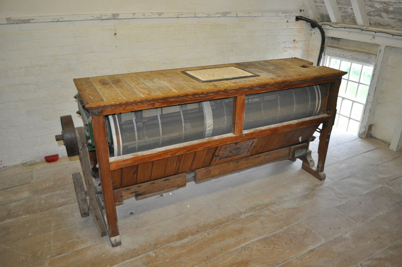 A flour dresser in the Pakenham Watermill. This device improved the quality of the flour by removing some of the bran. The flour entered via a hopper on the right and passes through the rotating drum with a fine wire mesh. This sieved the flour which fell to the floor below.